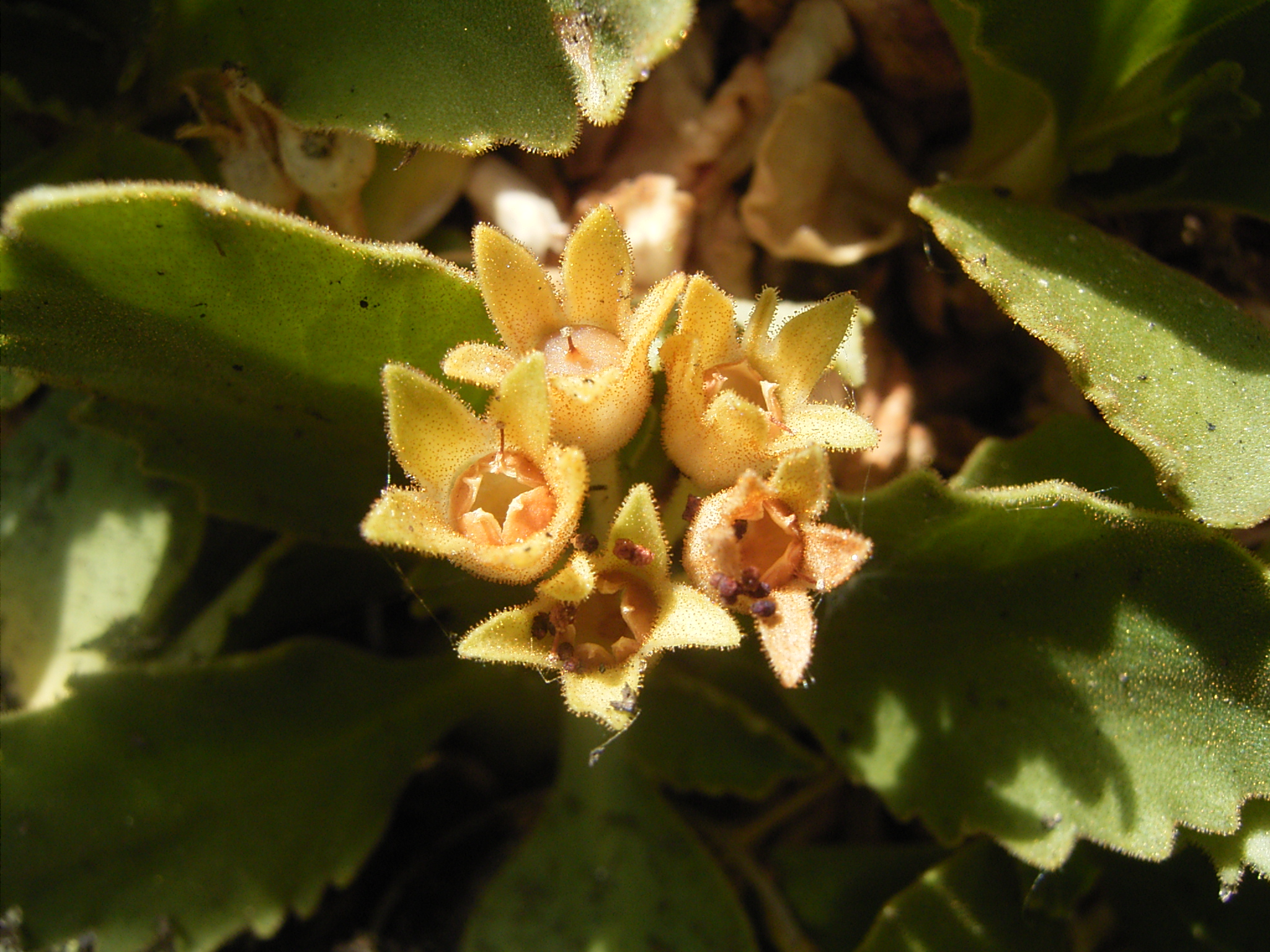 This photo shows Primula hirsuta